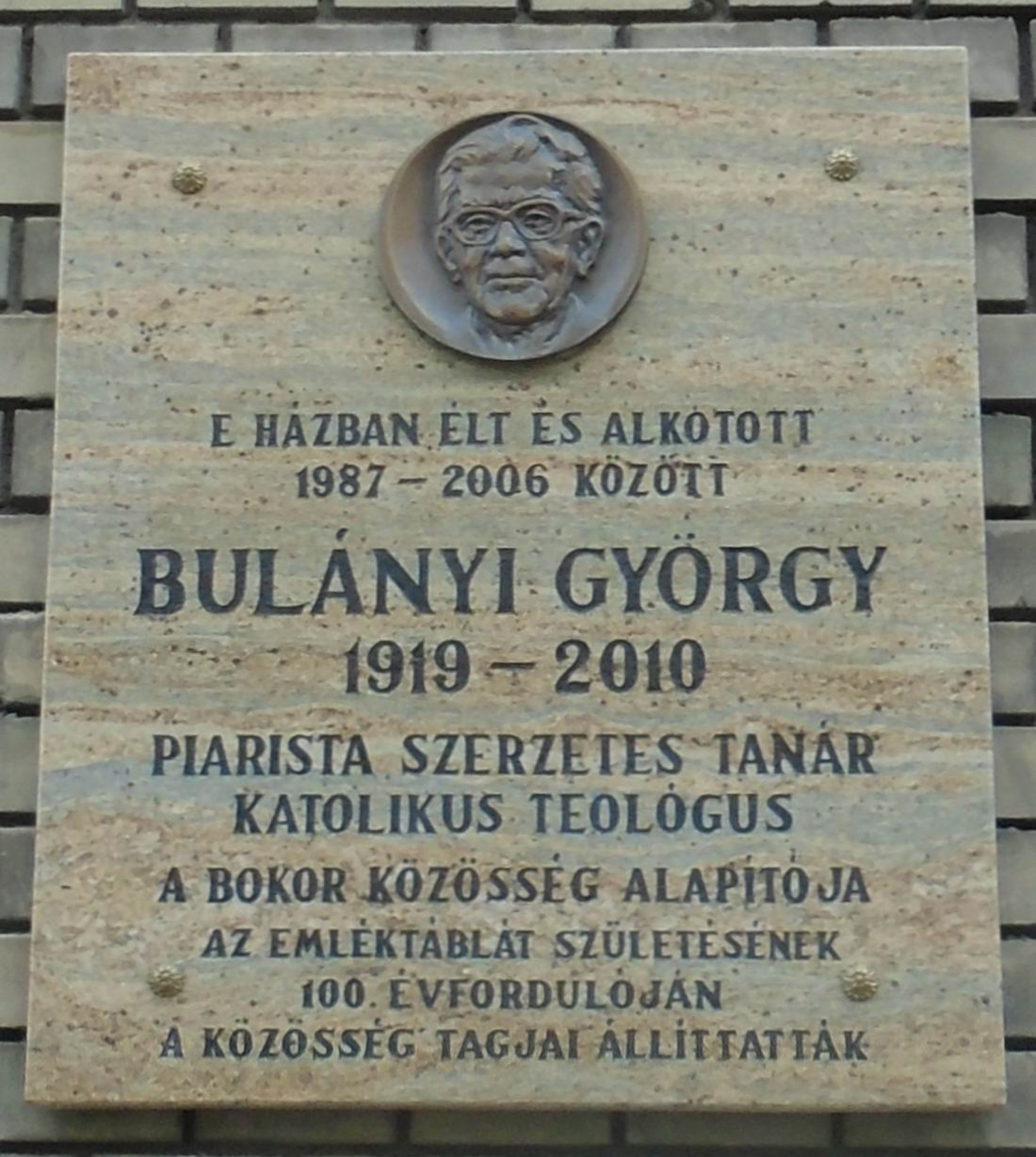 György Bulányi's commemorative plaque with relief on the wall of Városmajor Street No 47/b.